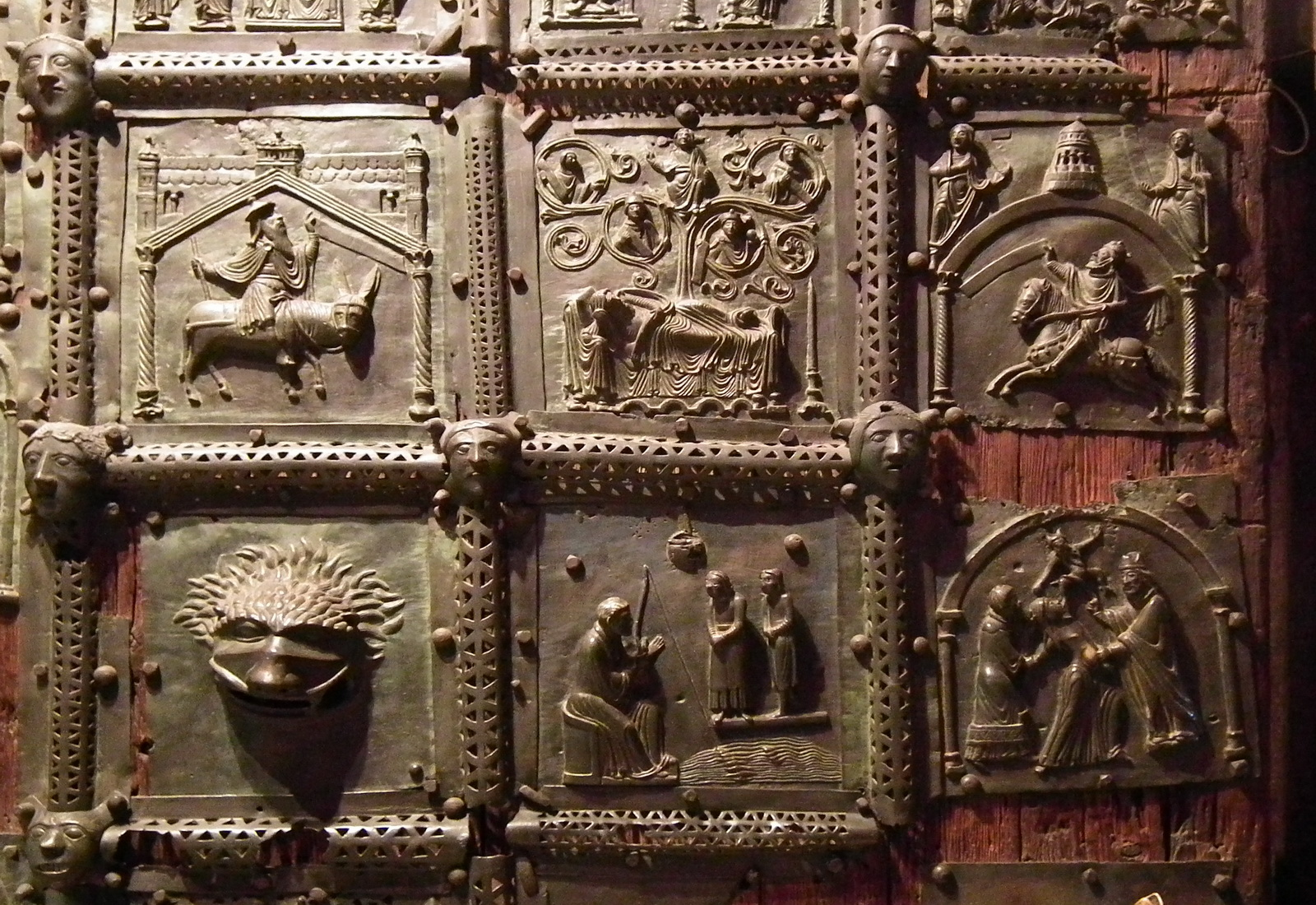 Details on the right panel of the Bronze door. Basilica of San Zeno, Verona Native nameBasilica di San ZenoLocationVerona, Veneto, ItalyCoordinates45° 26′ 33″ N, 10° 58′ 45″ E Established12th/13th centuryWebsite